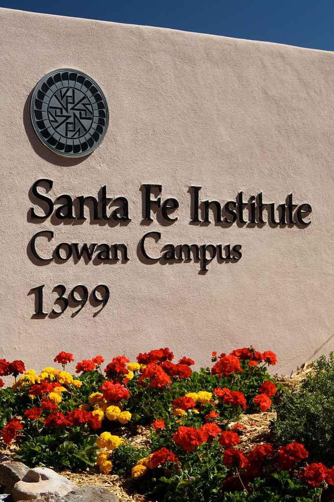 Main gate sign at the Santa Fe Institute, Santa Fe, New Mexico